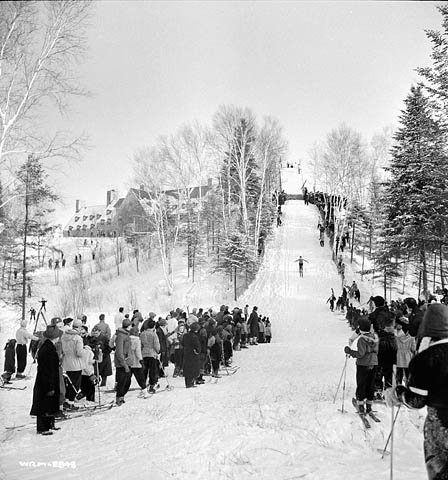 View of the ski jump at the Saguenay Inn, built to accommodate Aluminum Company of Canada employees lacking accommodation. Jan. 1943 / Arvida, Quebec